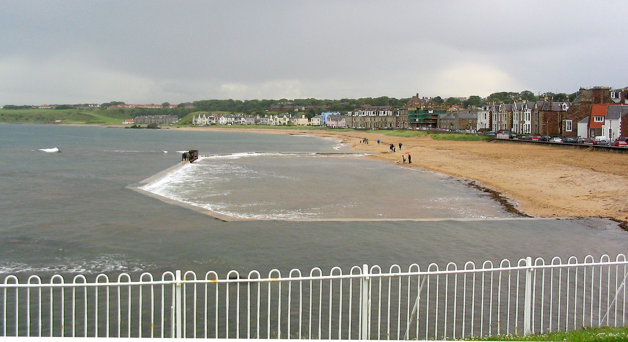 The East Bay front, with the boating pool filling on the tide. The East Course in the distance. Picture taken by me, Martin Taylor, July 2004.